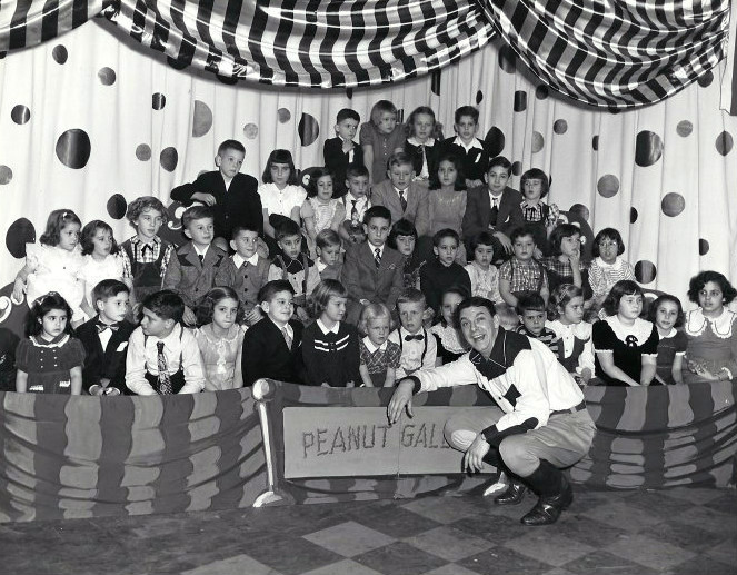 Photo of host Buffalo Bob Smith and the live children's audience from the television program Howdy Doody. The show's name for where the children were seated during the broadcast was "The Peanut Gallery".